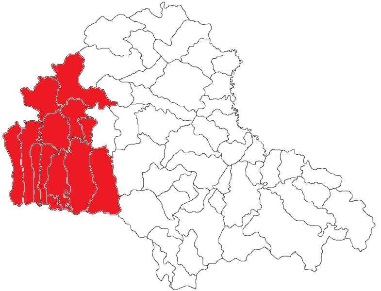 Tara Fagarasului region in Brasov county